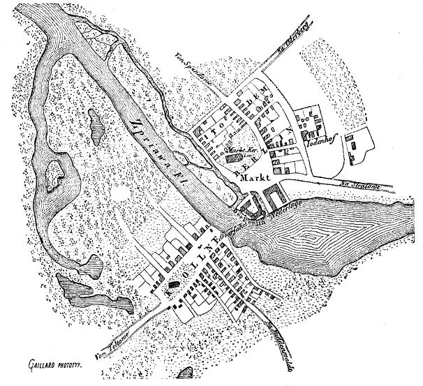 Karl Friedrich Klöden, map Berlin and Cölln c. 1230